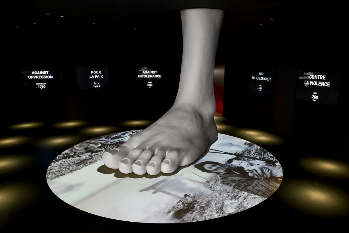 Dignity trampled underfoot Architect: Gringo Cardia © MICR, photo Alain Germond